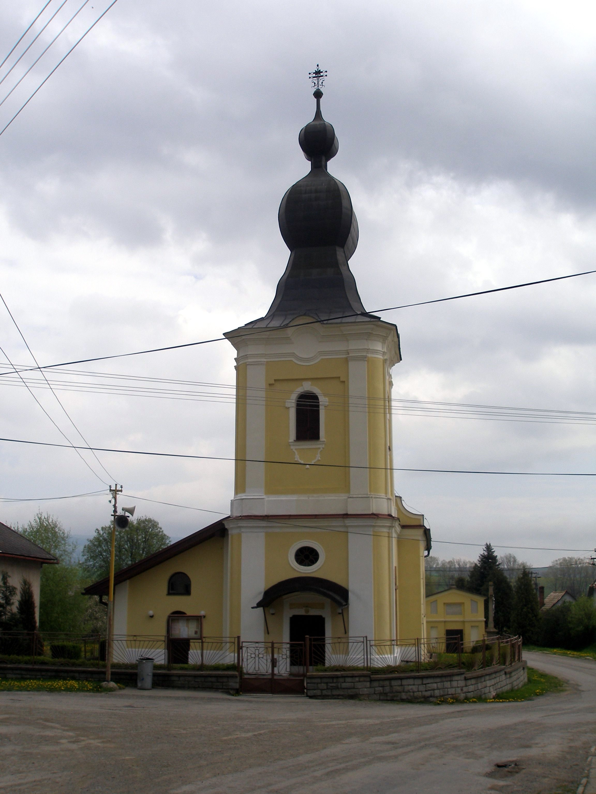 Obec Fulianka okres Prešov región Šariš This medium shows the protected monument with the number 707-283/0 (other) in the Slovak Republic.